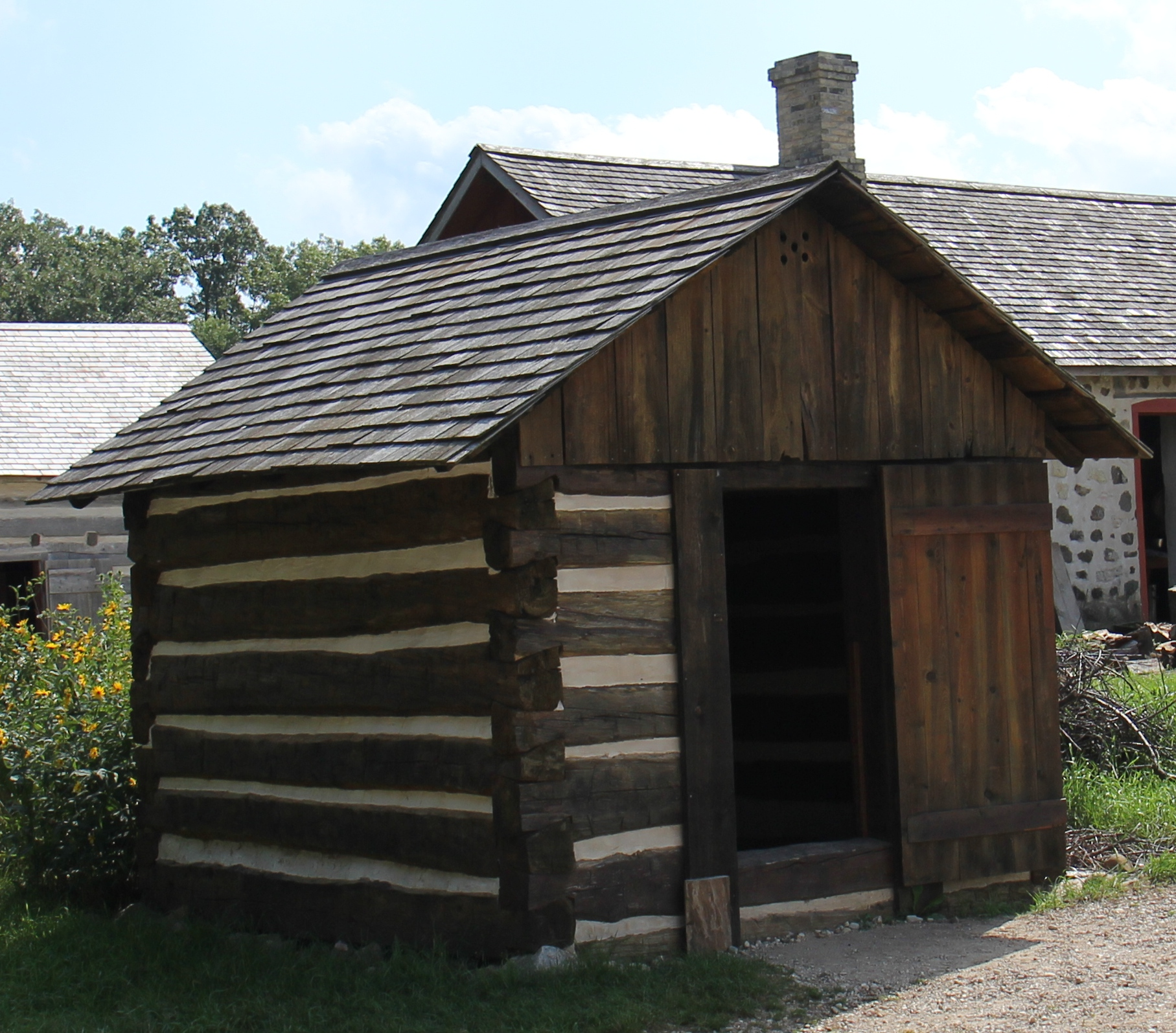 The Jung Smokehouse at Old World Wisconsin. The building is example of German settlements to the New World.